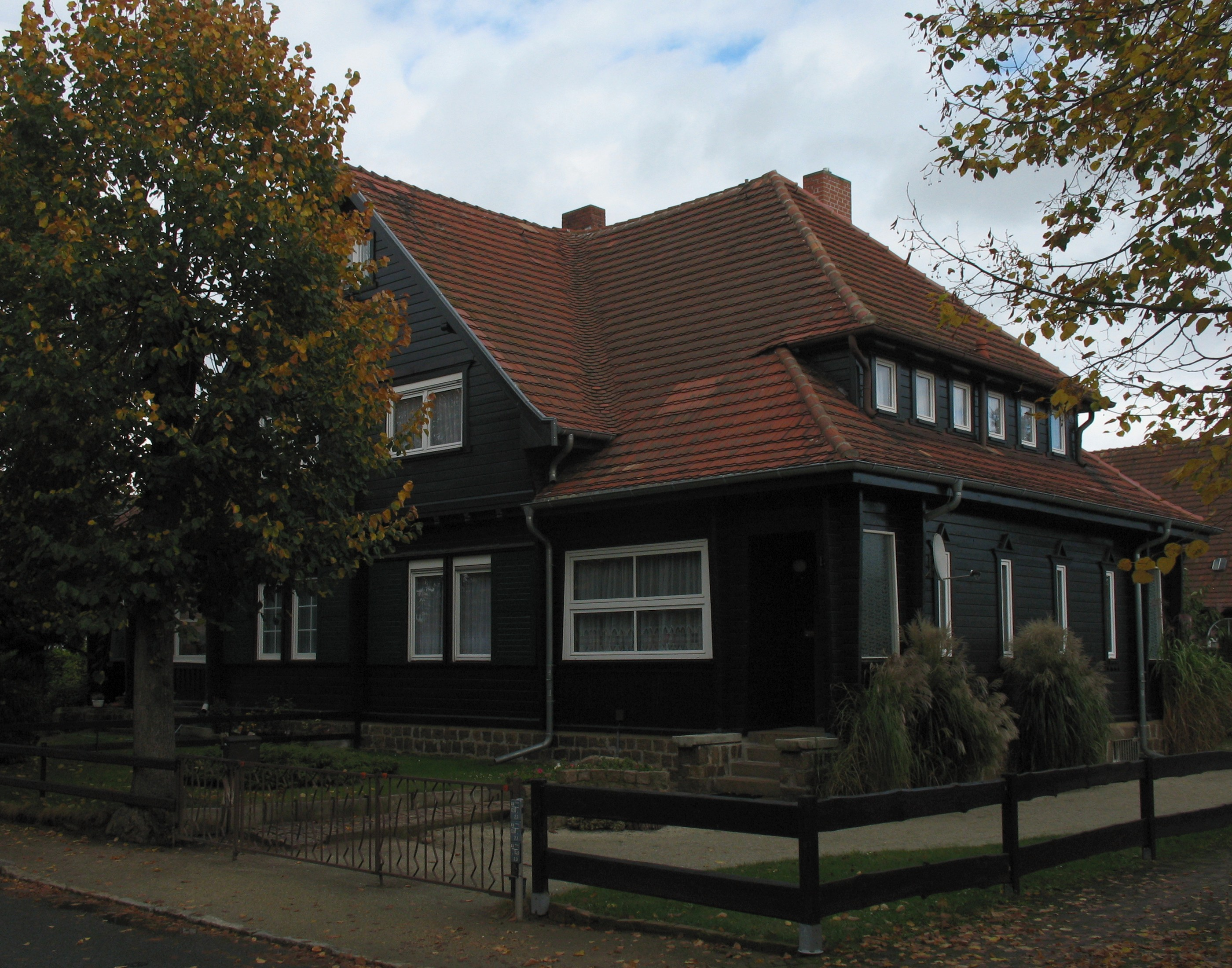 Wooden house in Niesky in Saxony, Germany